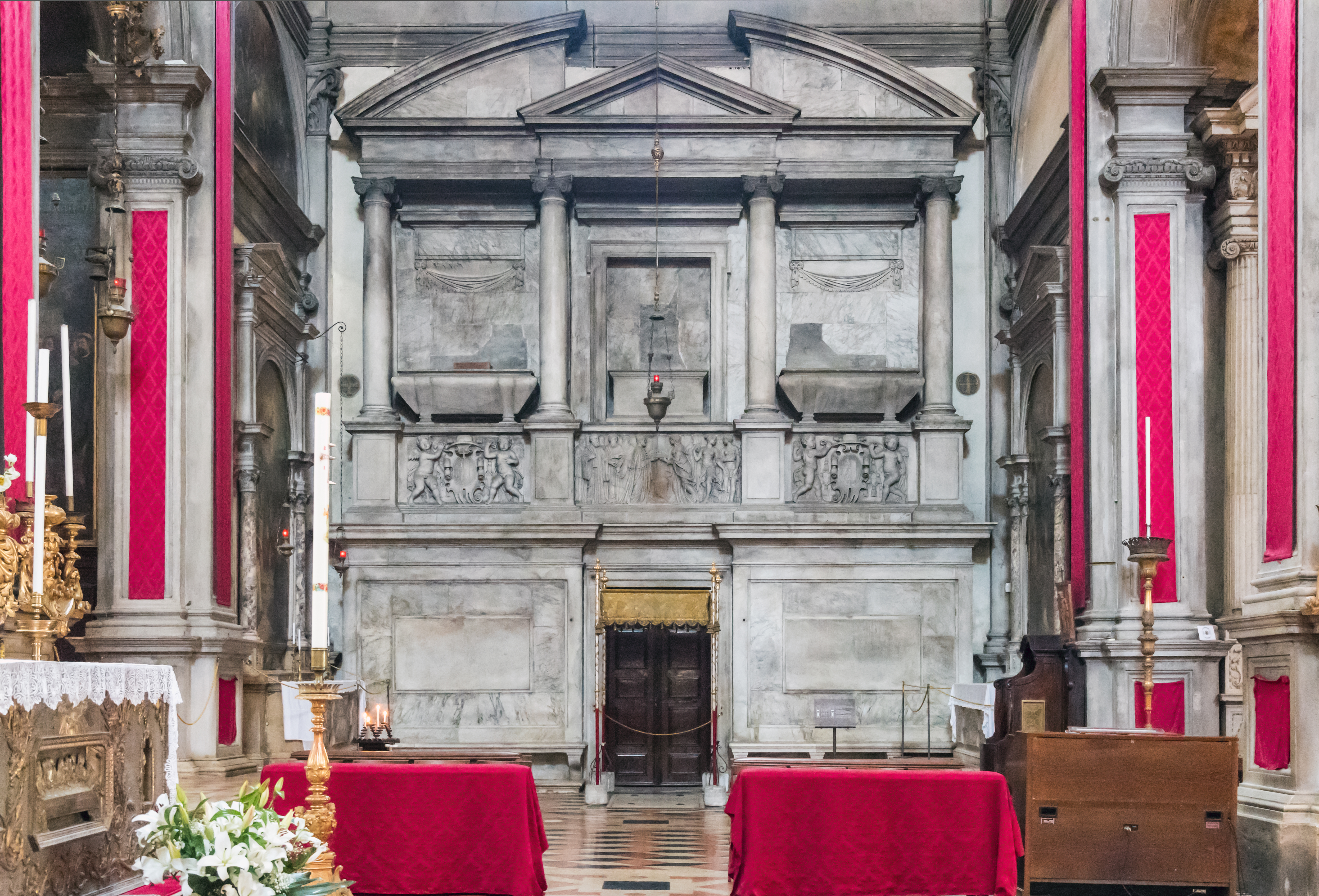 Church of San Salvador, in Venice- The Monument to Catherine Cornaro.